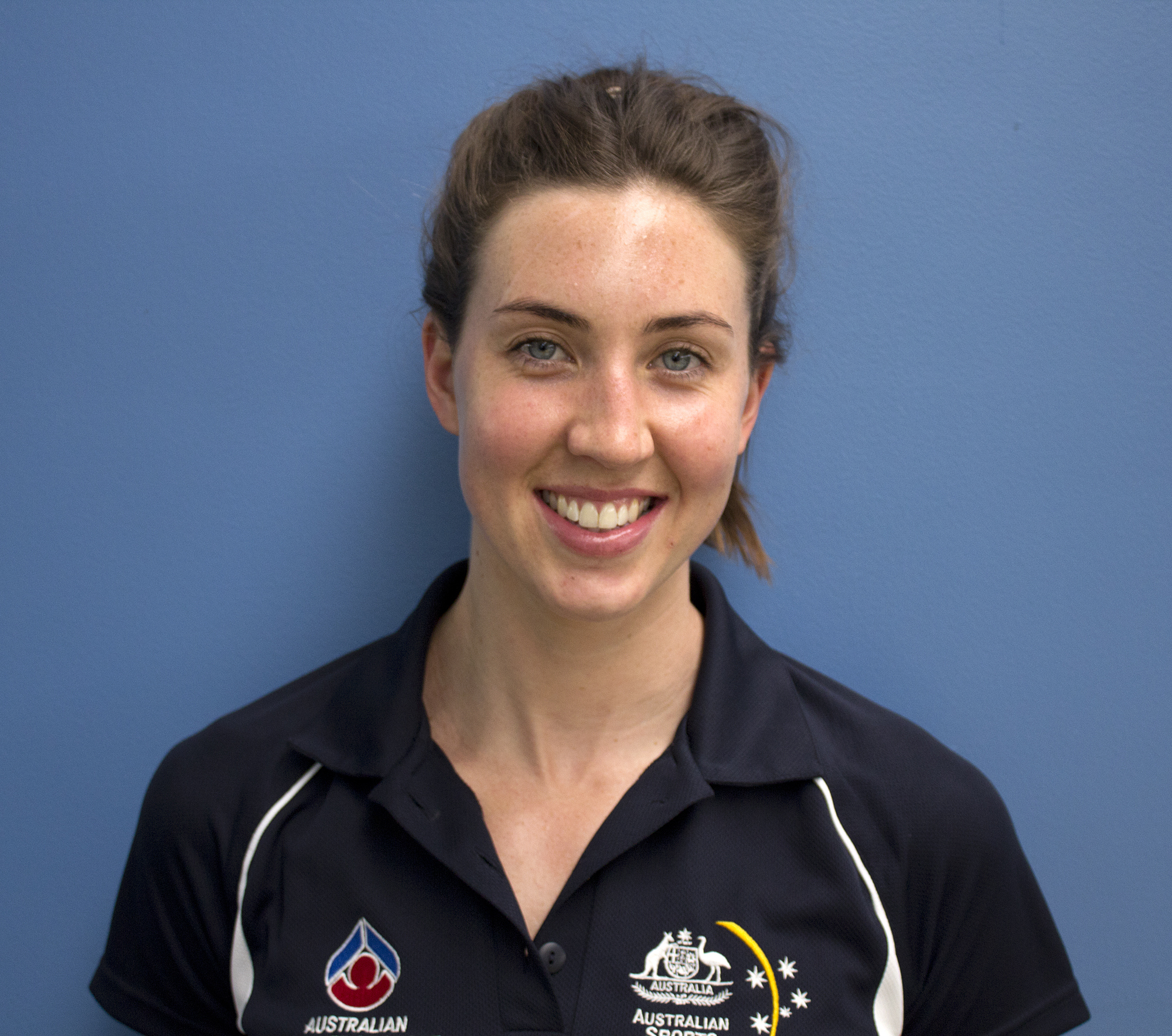 A portrait of Sophie Smith Australian women's national water polo player.